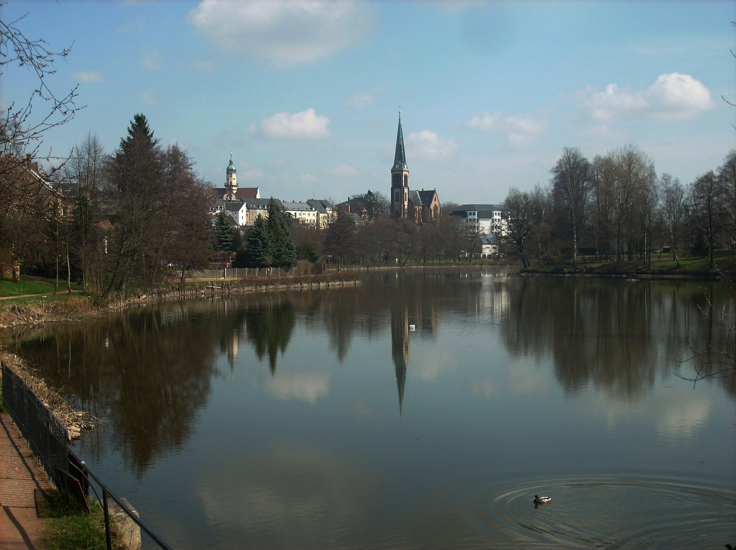 Great Pond at Geringswalde (Mittelsachsen district, Saxony)